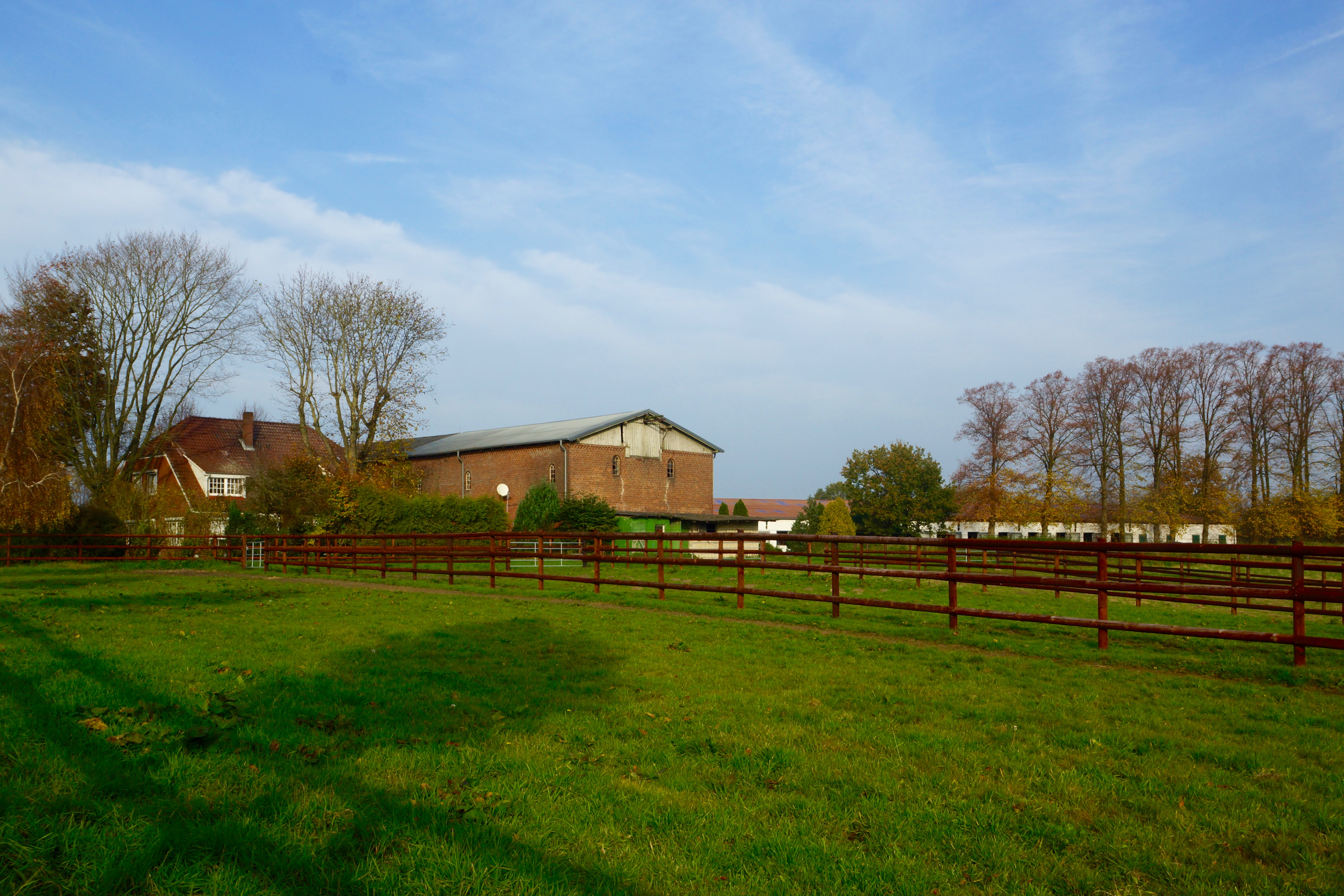 Bevern (Steinfurt), Germany: Farm